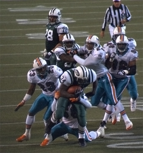 Miami and New York Jets playing in 2004 Original description: "November 2nd (sic), 2004 Monday Night Football Jets v. Dolphins"